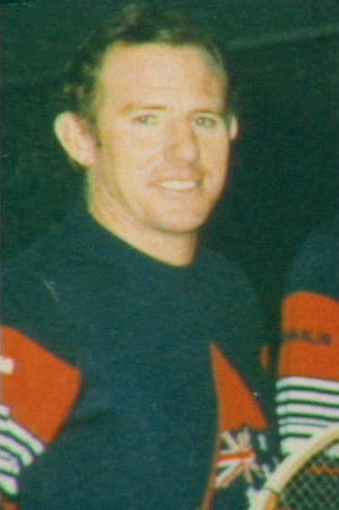 Portrait of Australian Institute of Sport Head Tennis Coach in 1981